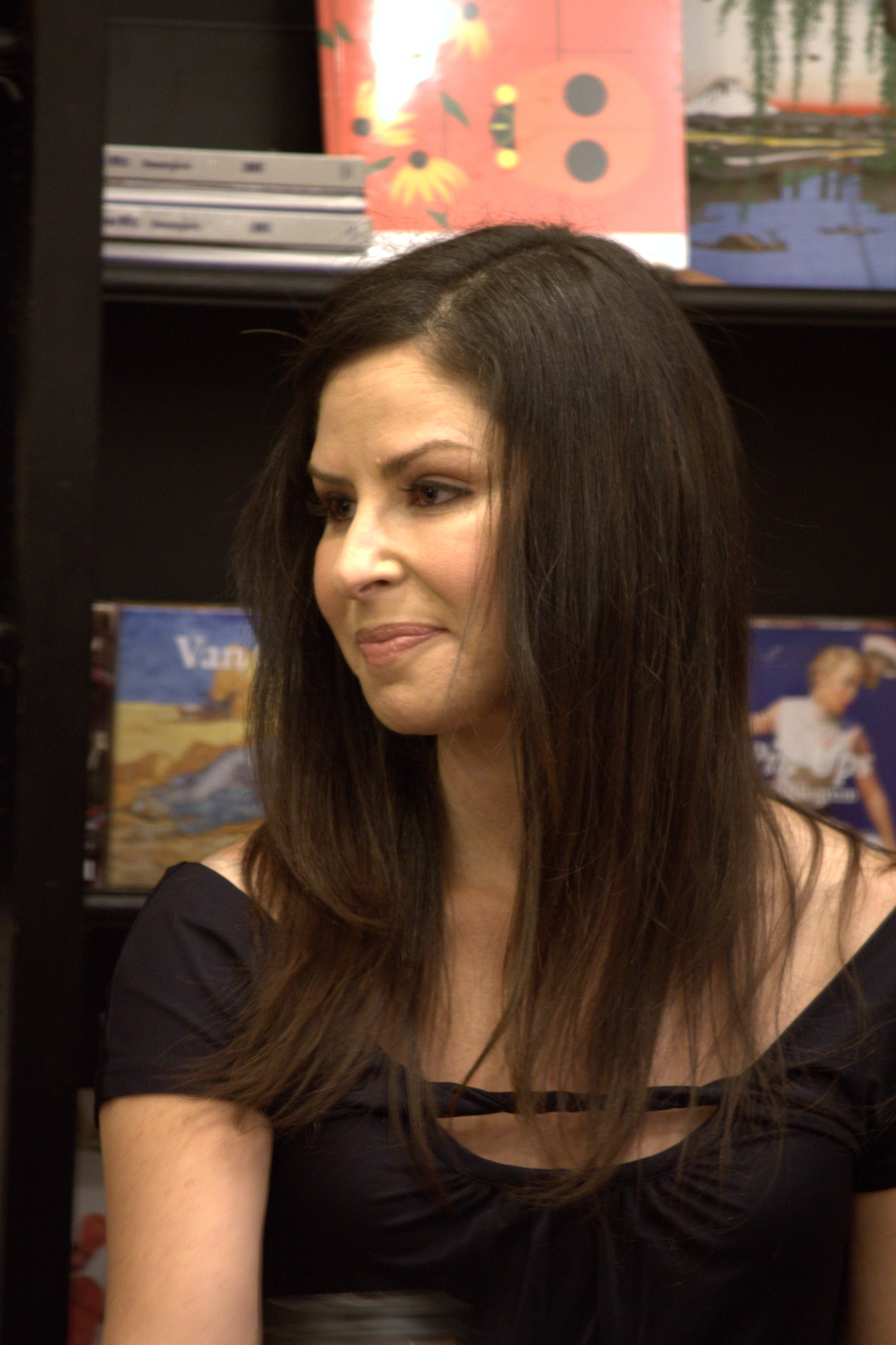 Teresa Strasser at Book Soup in West Hollywood, California, reading her book and being interviewed by Ben Mankiewicz.